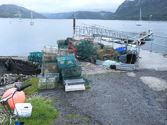 Lobster pots at Plockton new pontoon Looking up into the mouth of Loch Carron.